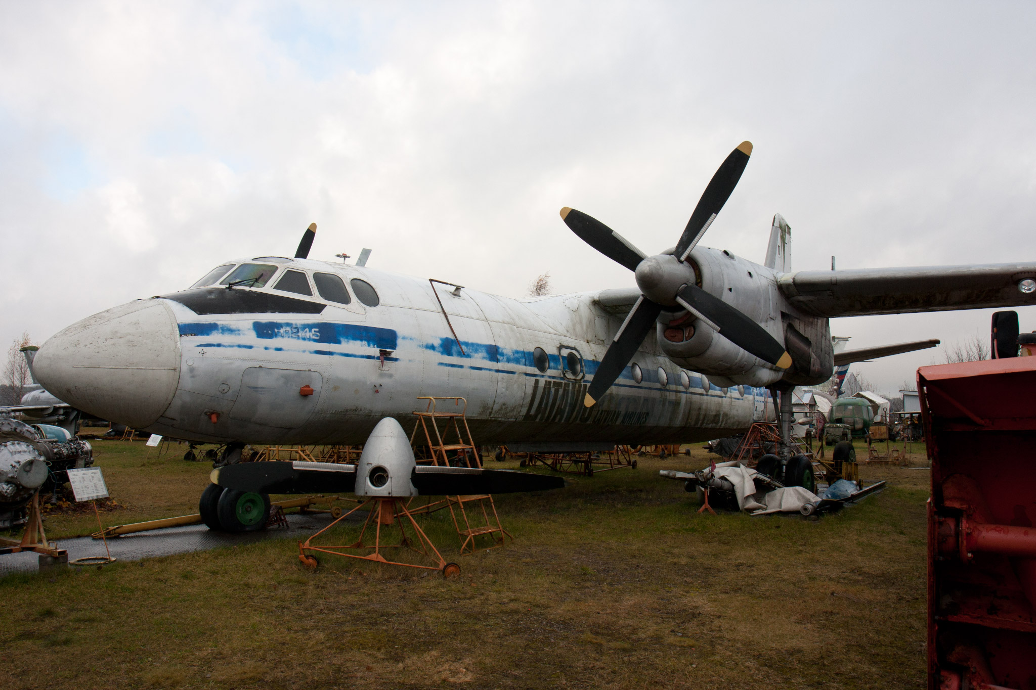 An-24B YL-LCD (former CCCP-46400) in Riga aviation museum.